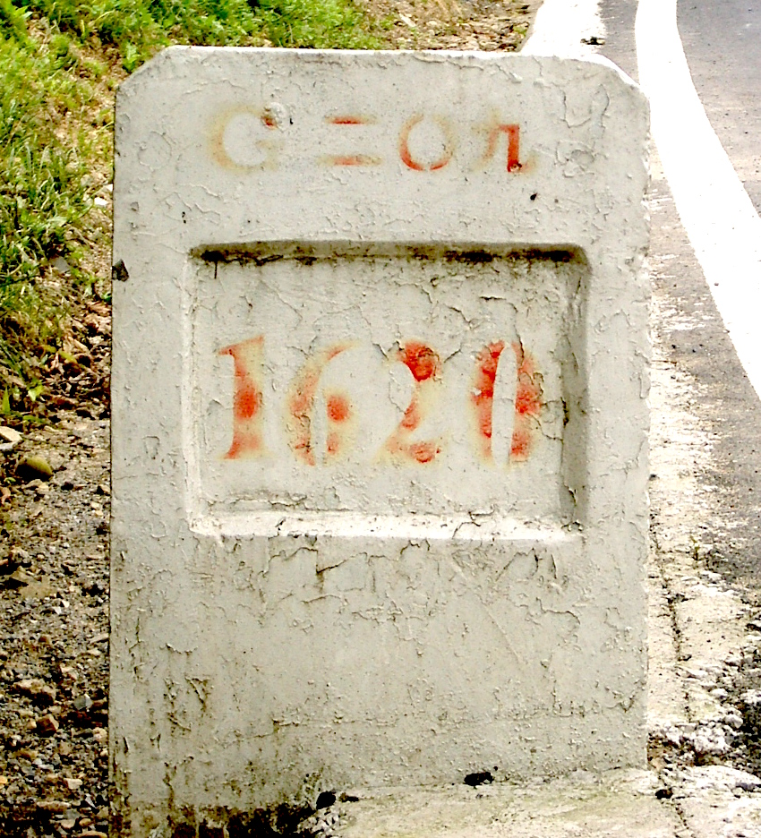 Cropped version of File:Muyu-G209-1620km-5469.jpg